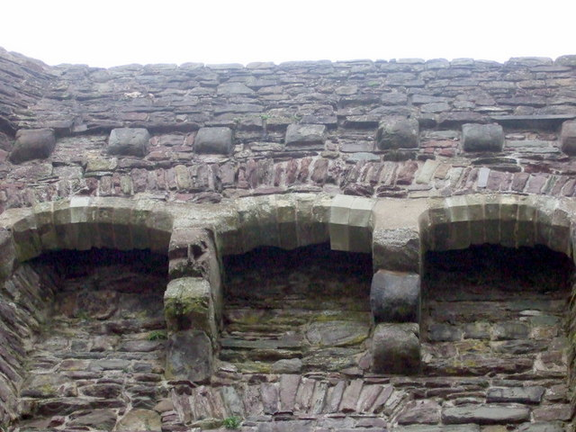 Murder holes on Carmarthen Castle These openings between the corbels above the main gate are technically called machicolations (from the French meaning to mash or crush the neck!) They were a Norman invention that allowed the castle's defenders to drop missiles such as heavy stones, hot sand, molten lead, boiling water or pitch upon the invaders trying to gain entry below.